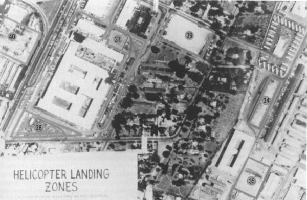 Aerial photo of the DAO Compound with LZs marked